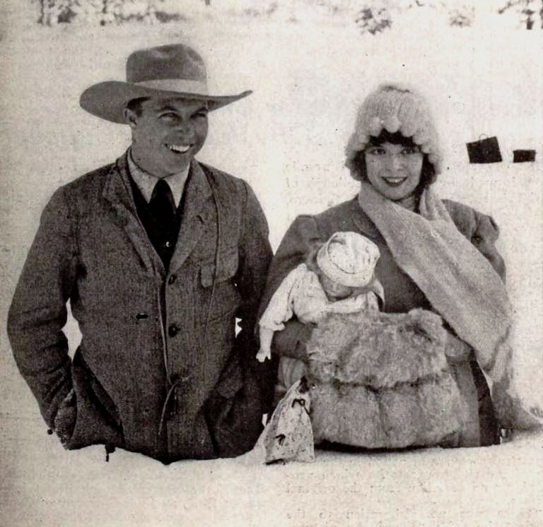 Director King Vidor and actress Colleen Moore on location in northern California for the snow scenes for the American drama film The Sky Pilot (1921), on page 65 of the May 28, 1921 Exhibitors Herald.